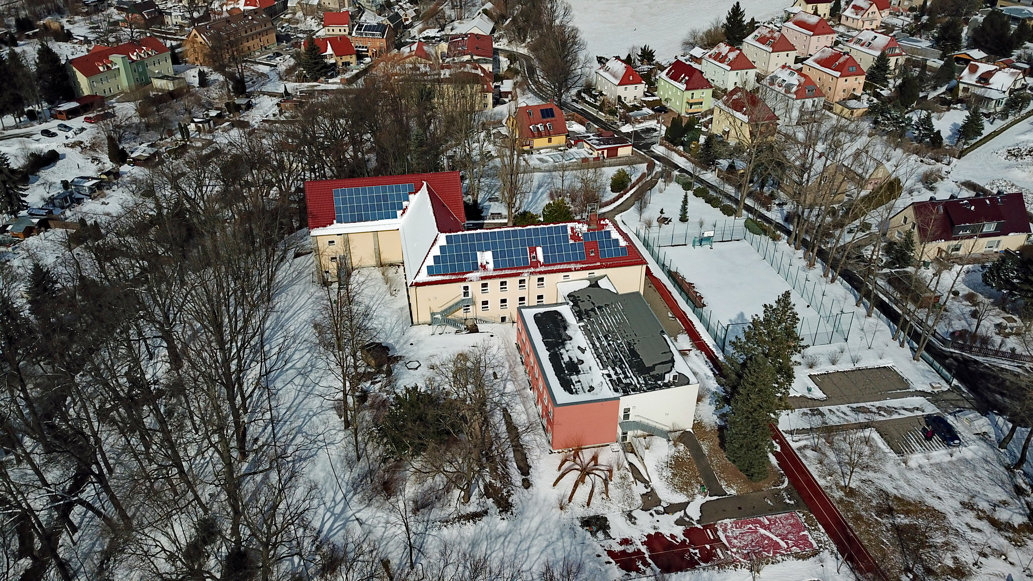 Kamenz (Saxony, Germany)